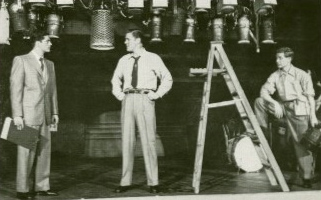 From left: Bill Hayes (as Larry) and Mark Dawson (Bob) exchange hostile looks as Edwin Phillips {Sidney) looks on. Lacks any copyright notice, so it is no longer under copyright. Image can be found here